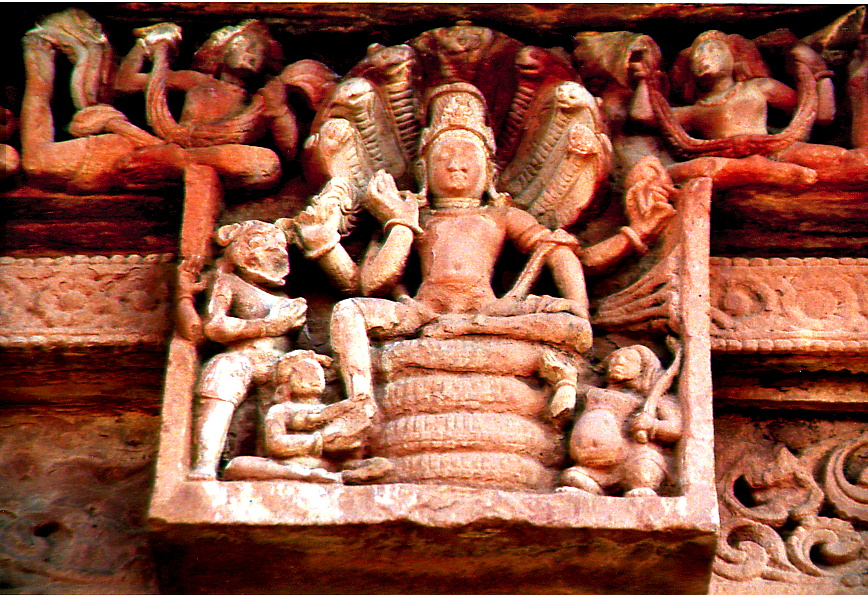 Photo 2815 Vishnu seated on coiled serpent throne, with Vamana on right, Narasimha on left with Lakshmi at his feet